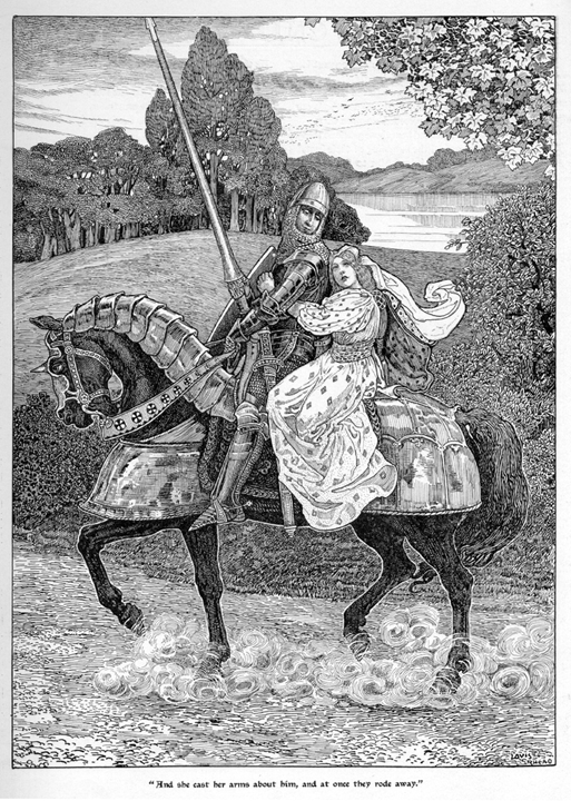 This picture illustrates the lines from Tennyson's "Enid" idyll (later "Geraint and Enid"): . . . and she cast her arms About him, and at once they rode away.